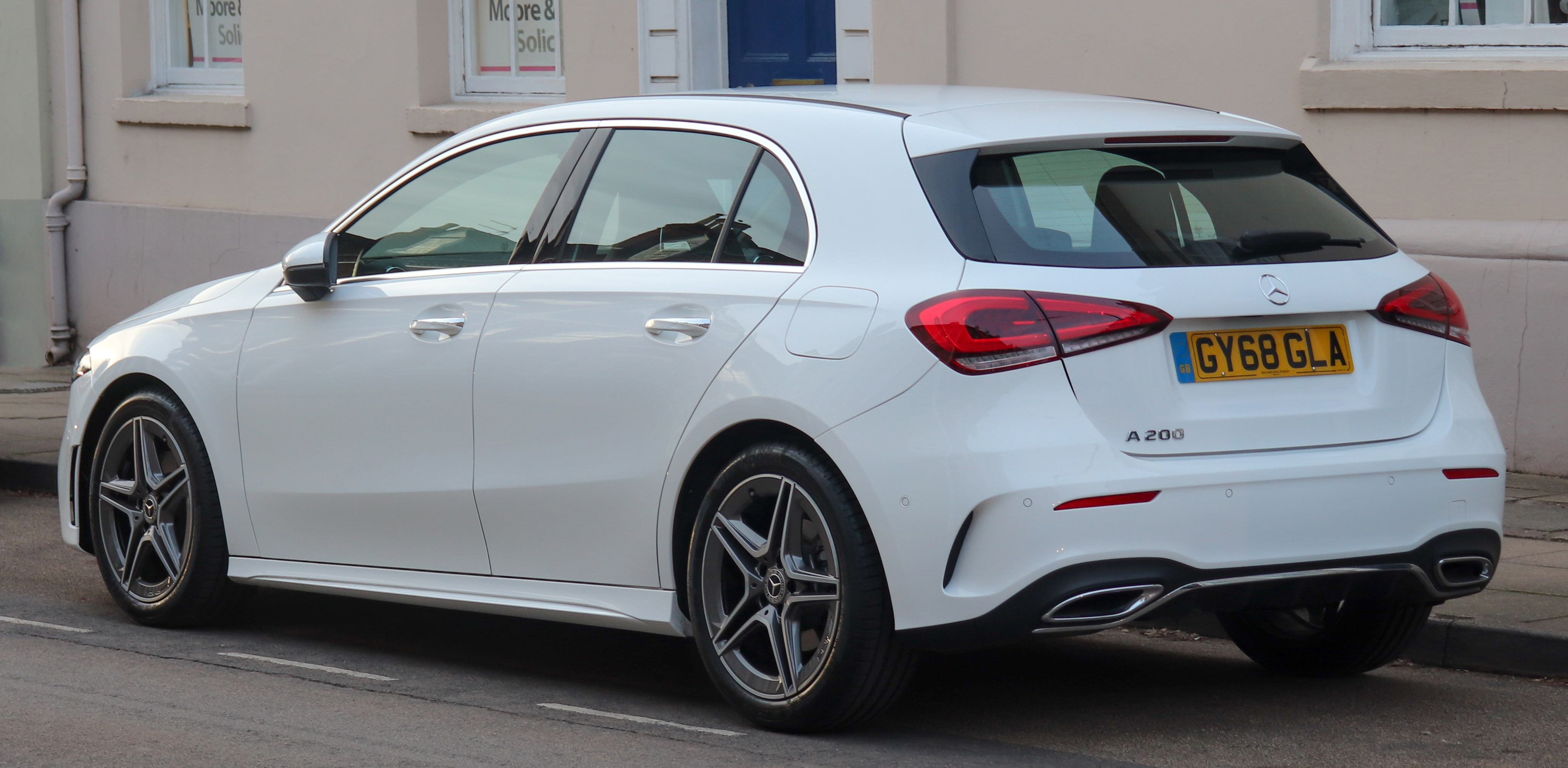 2018 Mercedes-Benz A200 AMG Line Premium Automatic 1.3 Rear Taken in Warwick